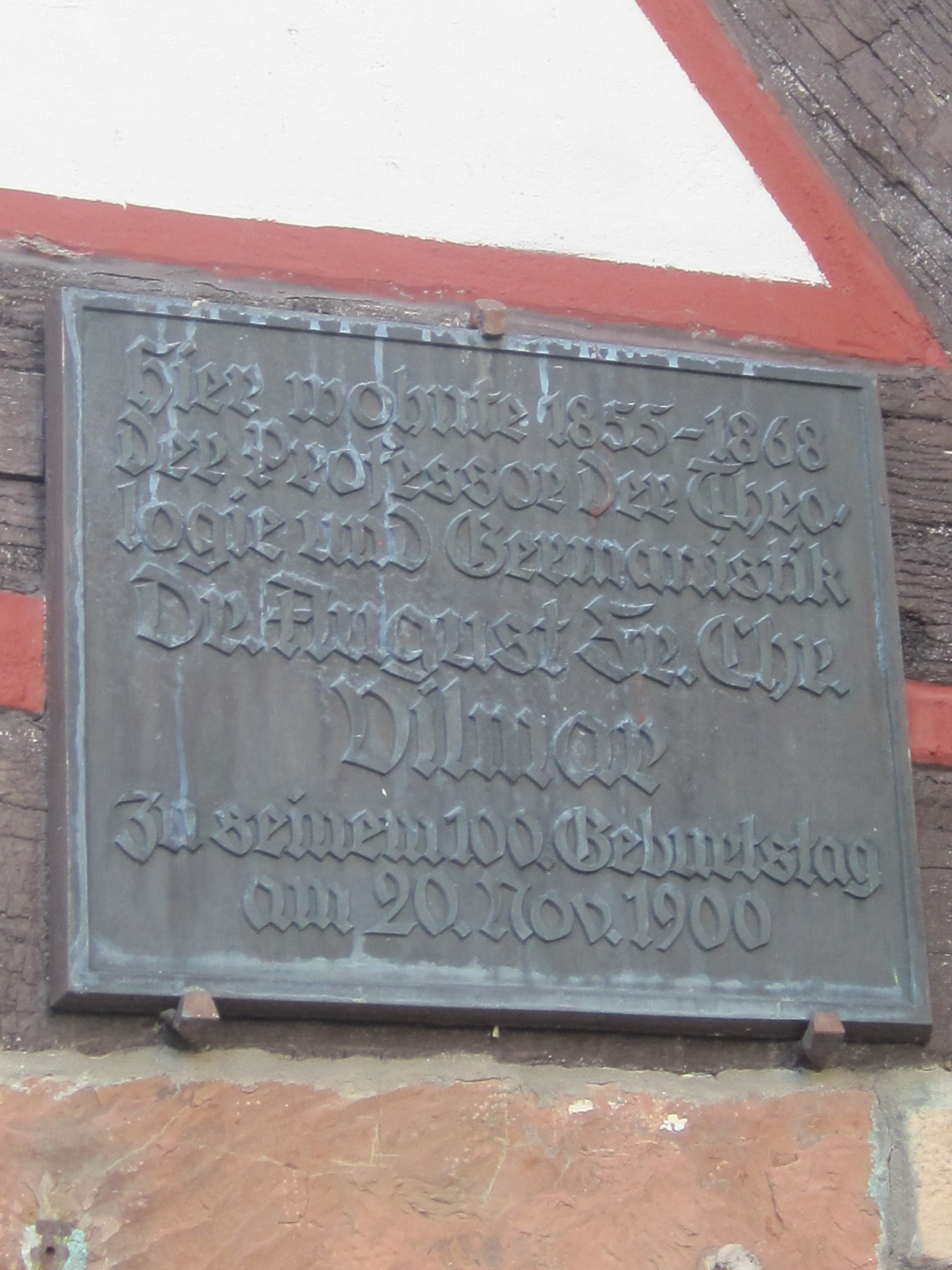 Memorial plaque for August Vilmar at Marburg